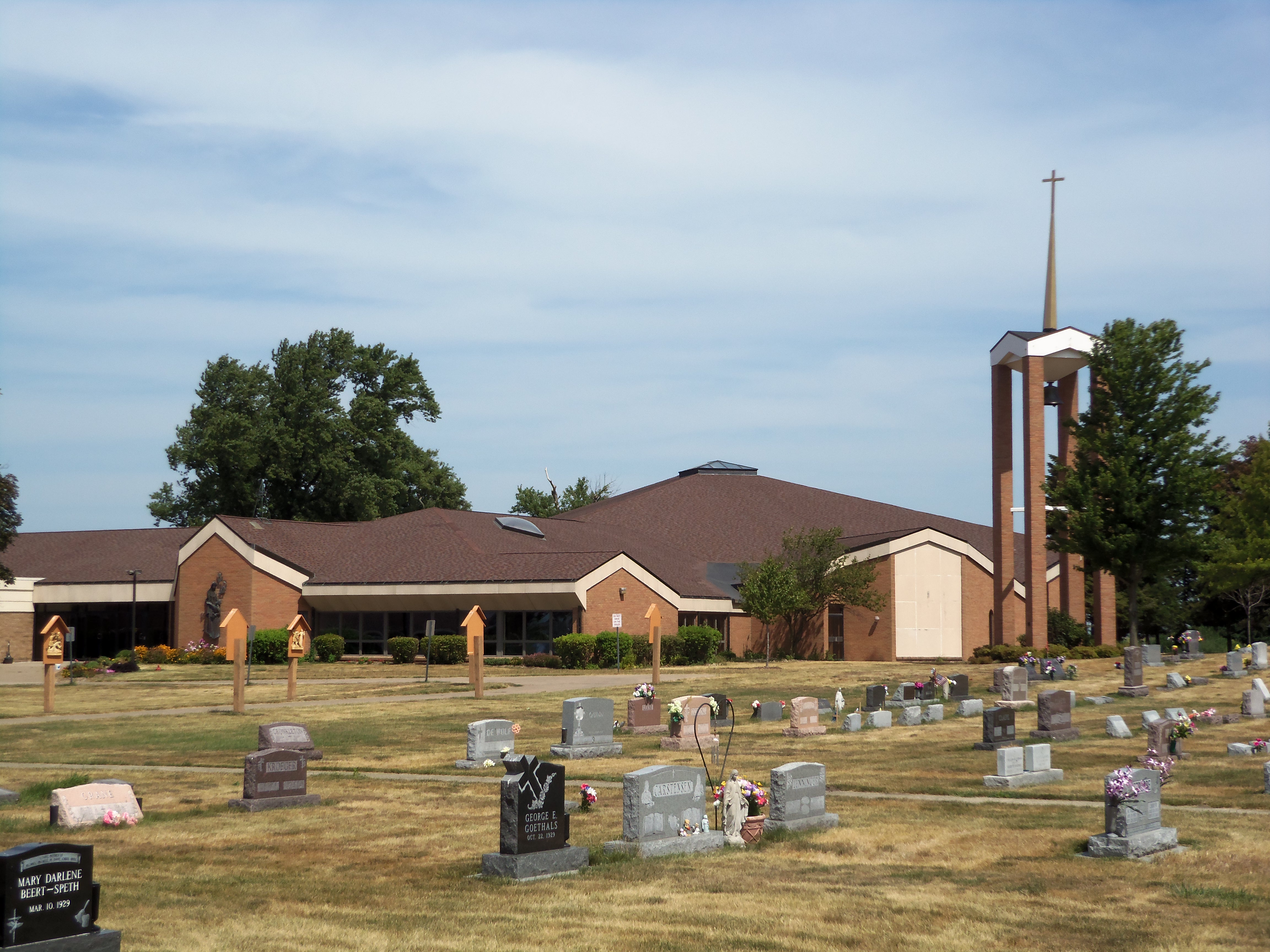 St. Ann's Catholic Church in rural Long Grove, Iowa. A portion of the parish cemetery is in the foreground.